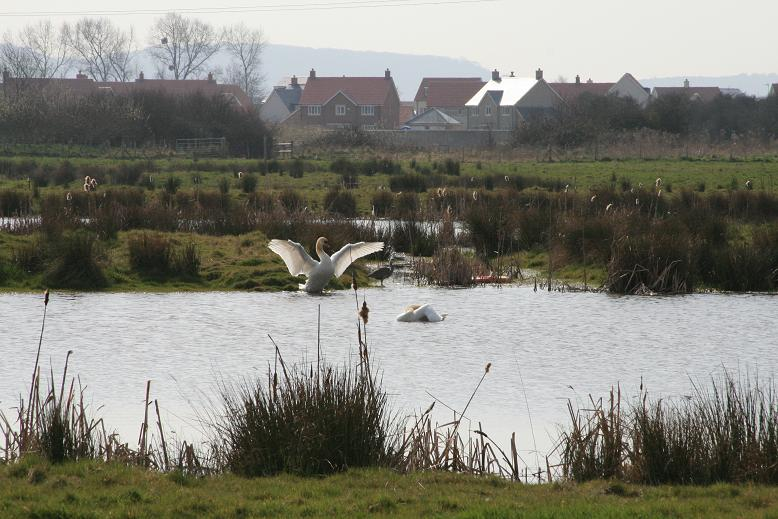 Conservation Ponds Spreading their Wings